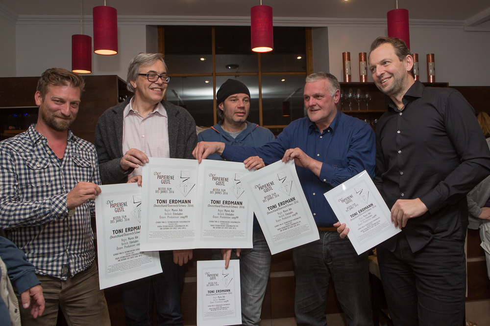 TONI ERDMANN is awarded with the prize of the Austrian film journalists ("Papierener Gustl") : best picture 2016.